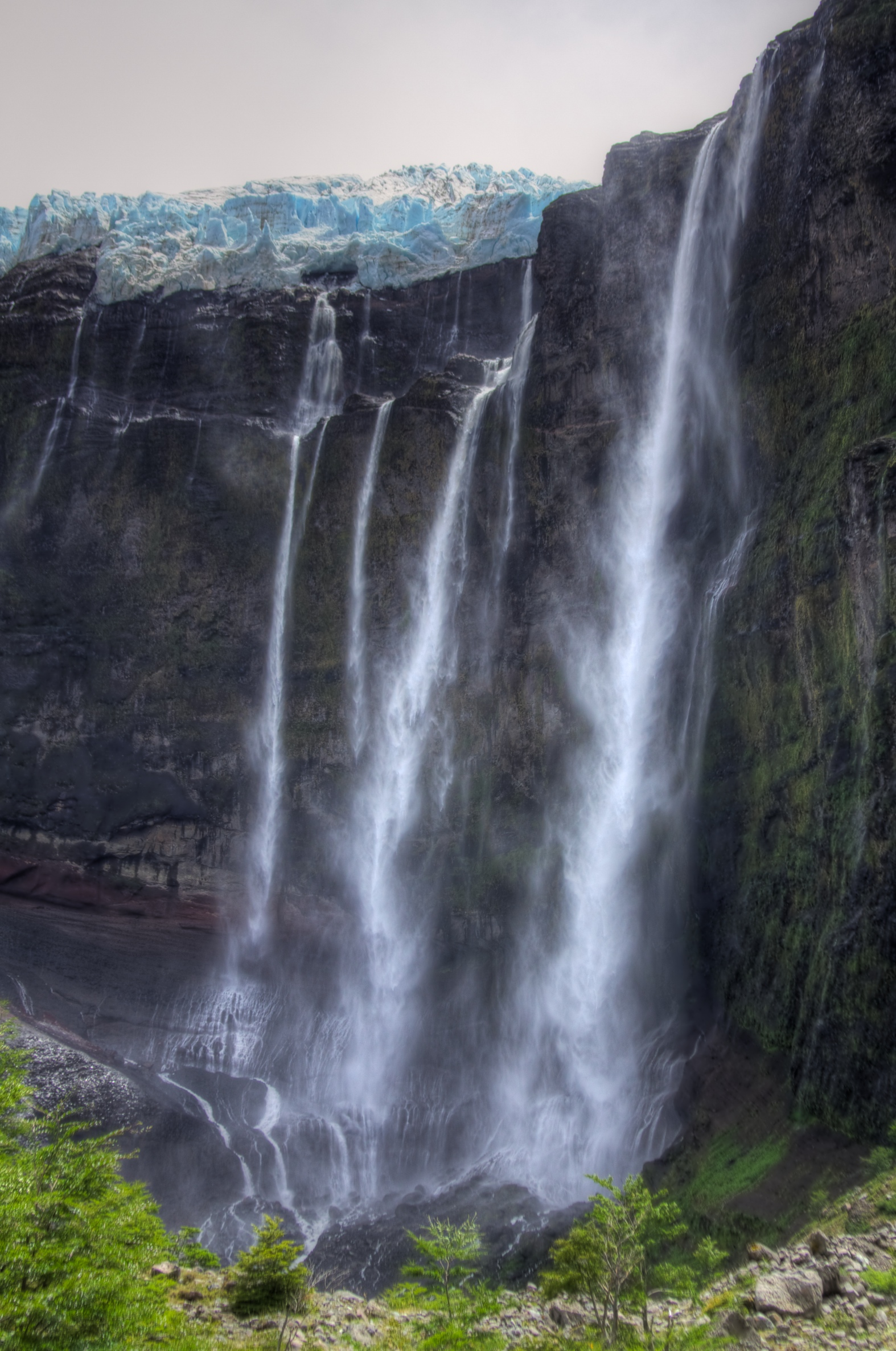 Argentina - Bariloche trekking 012 - Glacier Castaño Overo spilling water and ice over the cliff on Cerro Tronador